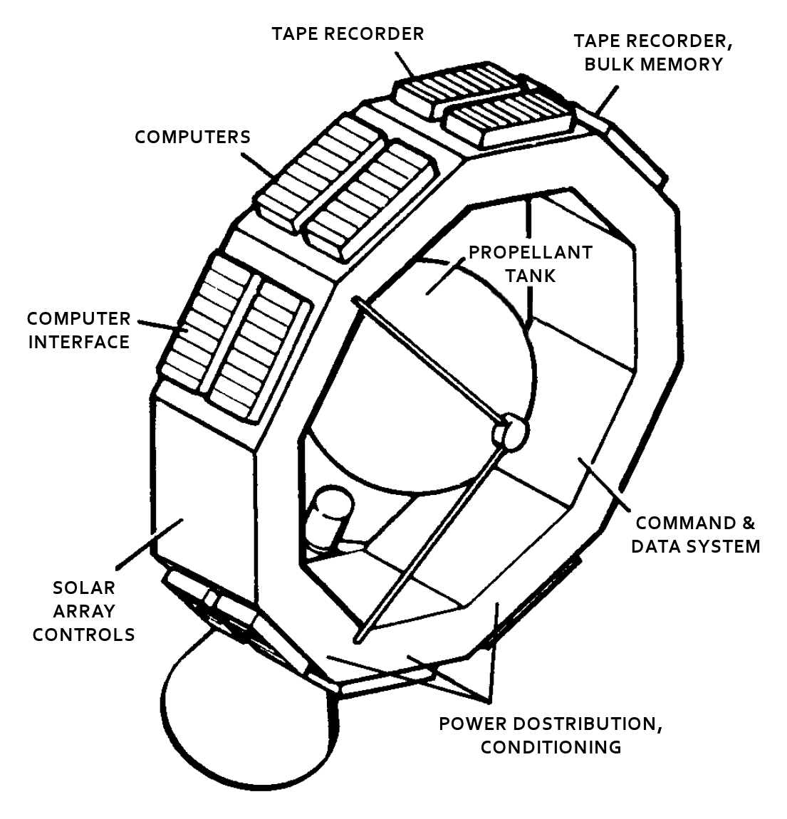 Diagram of the spacecraft bus that formed the main body of Magellan.